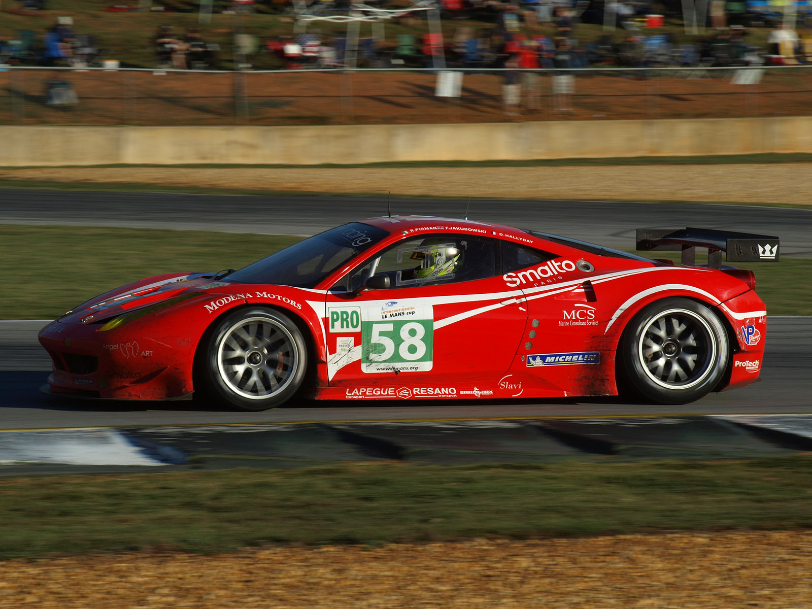 David Hallyday driving the Luxury Racing Ferrari 458 in the 2011 Petit Le Mans at Road Atlanta.